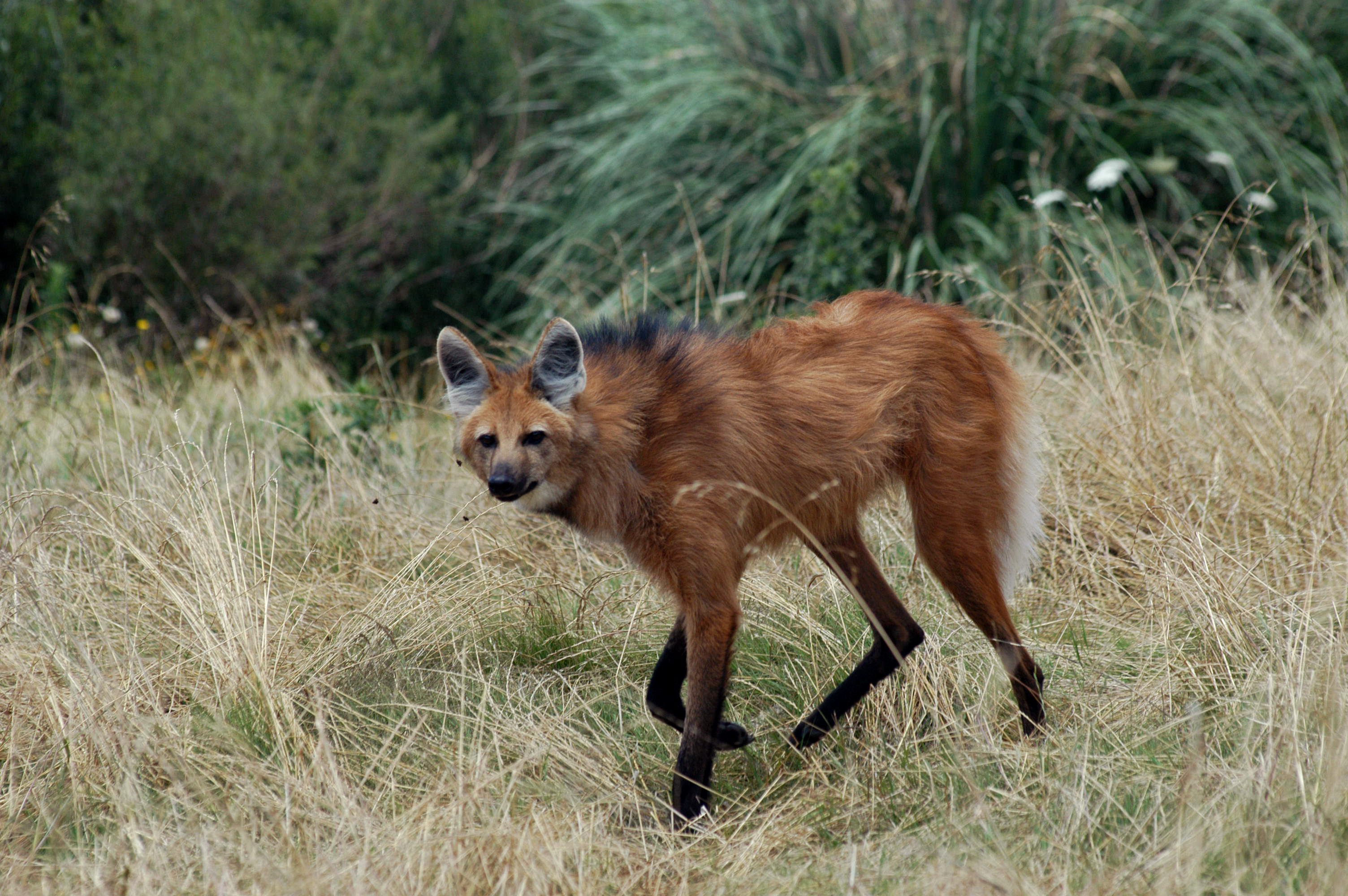 Un ejemplar de Aguará Guazu, Chrysocyon brachyurus caminando en una estación de Cría en Uruguay